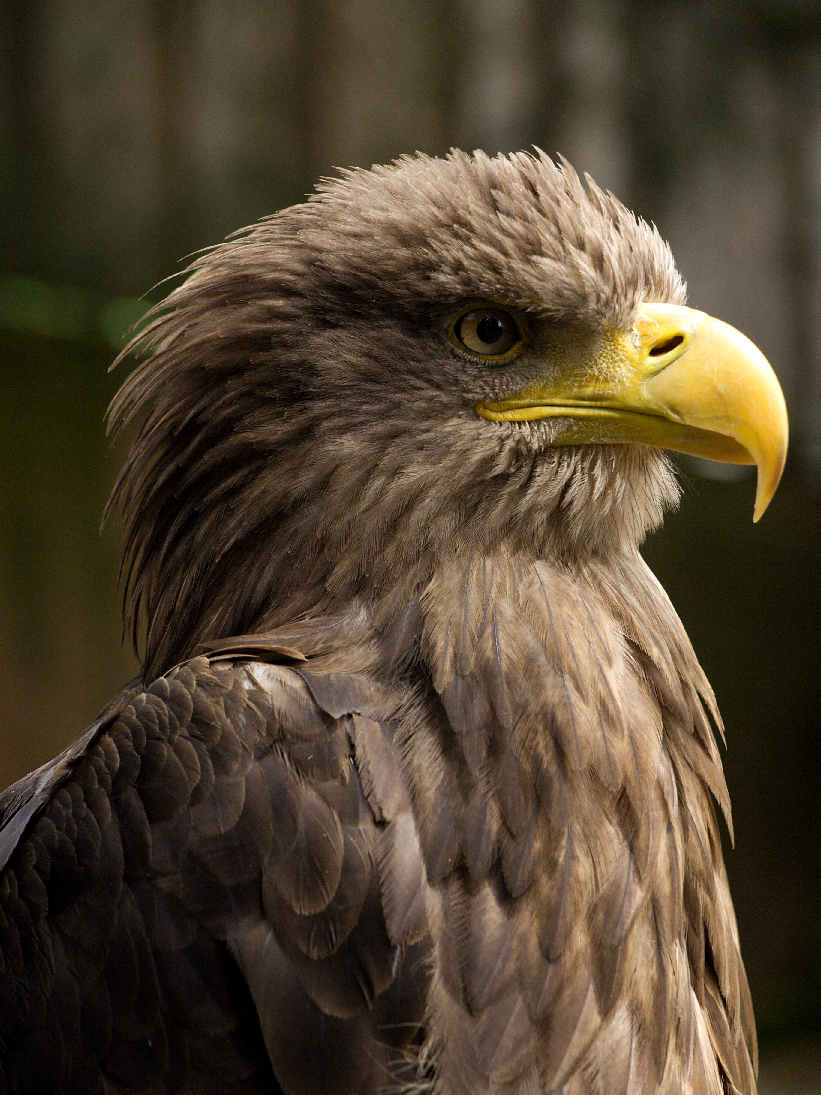 Head detail of White-tailed Eagle from Plzeň Zoo (2012)